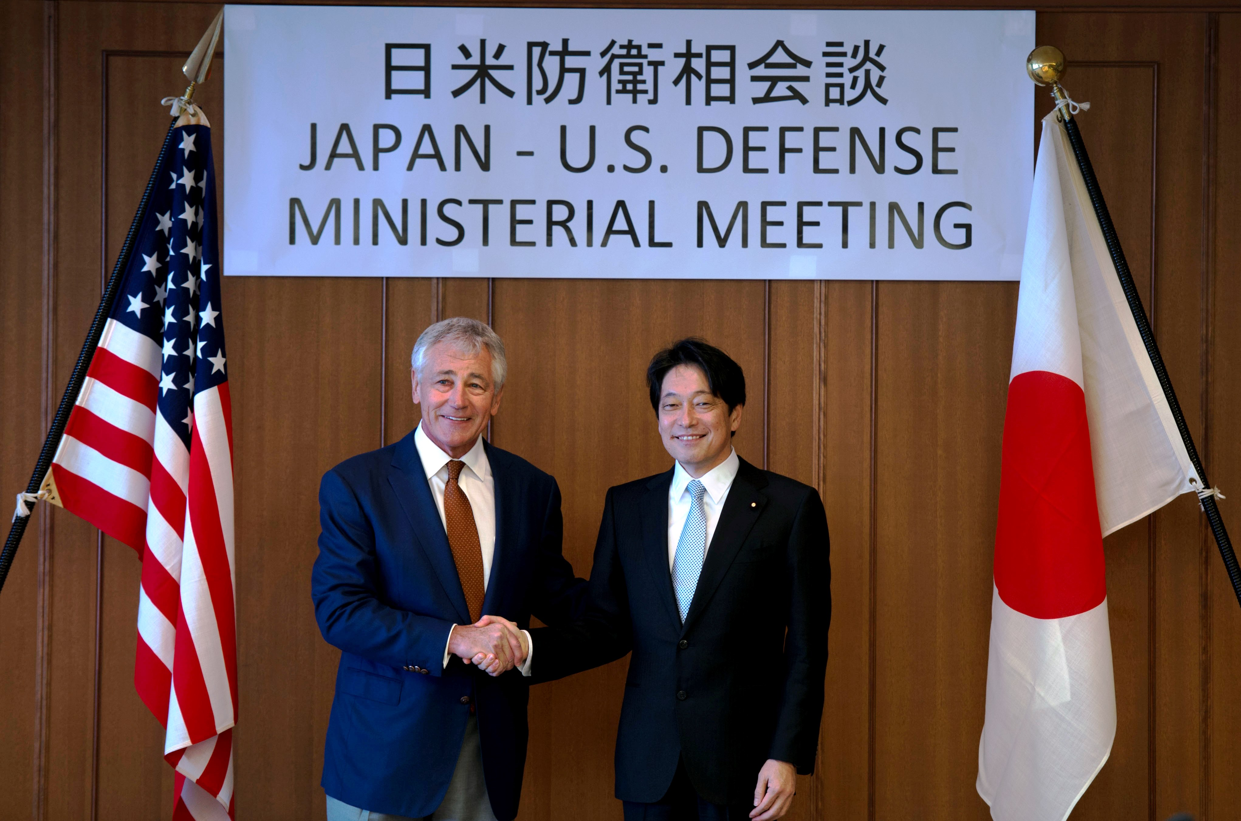 Secretary of Defense Chuck Hagel and Japanese Minister of Defense Itsunori Onodera pose for an official photo before a meeting in Tokyo, Japan April 6, 2014. Hagel and Onodera met to discuss issues of mutual importance.